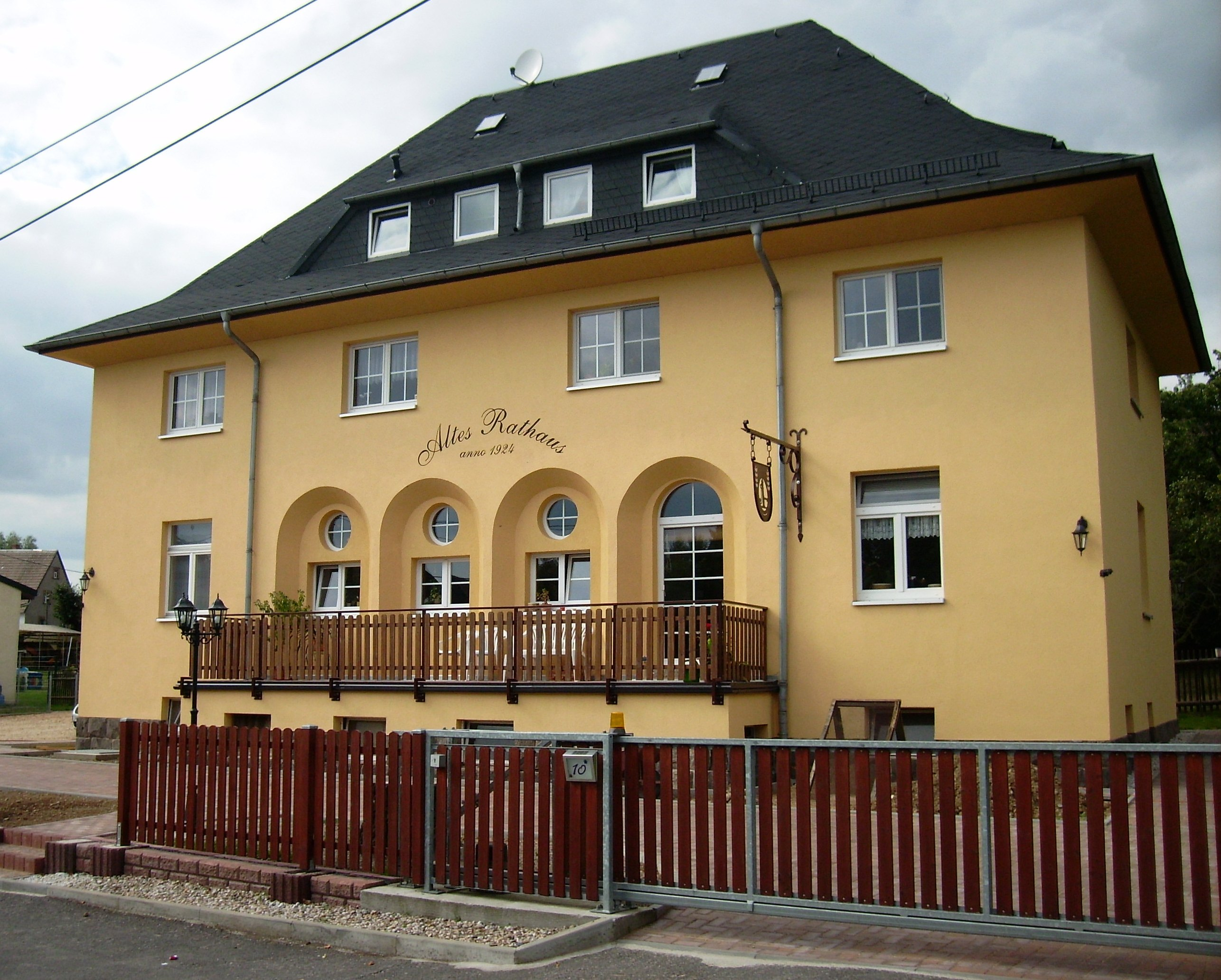 Former municipal offices in Diethensdorf (Claussnitz, Mittelsachsen district, Saxony)